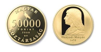 Mathias Corvinus, coin, gold, struck, 2008. Designer: Laszlo Szlavics, Jr.